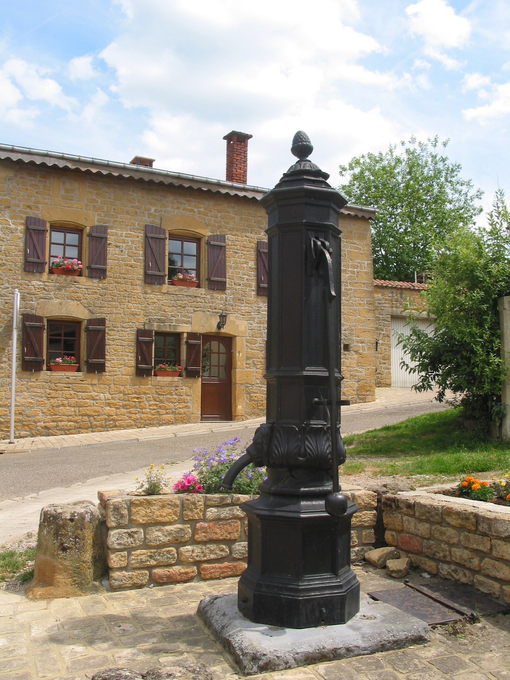 Torgny (Belgium), old municipal pump (XIXth century).